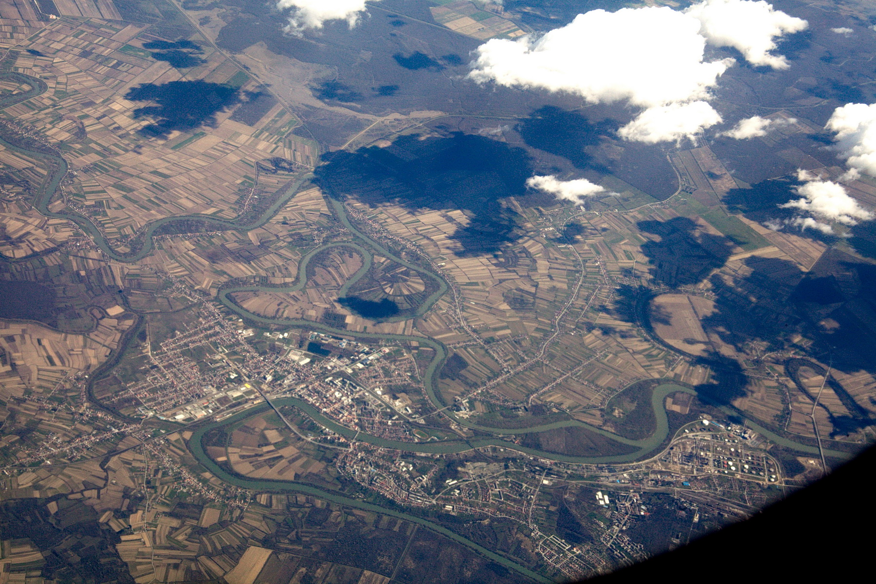 A view of the Sisak area the confluences of rivers Odra - Kupa - Sava.